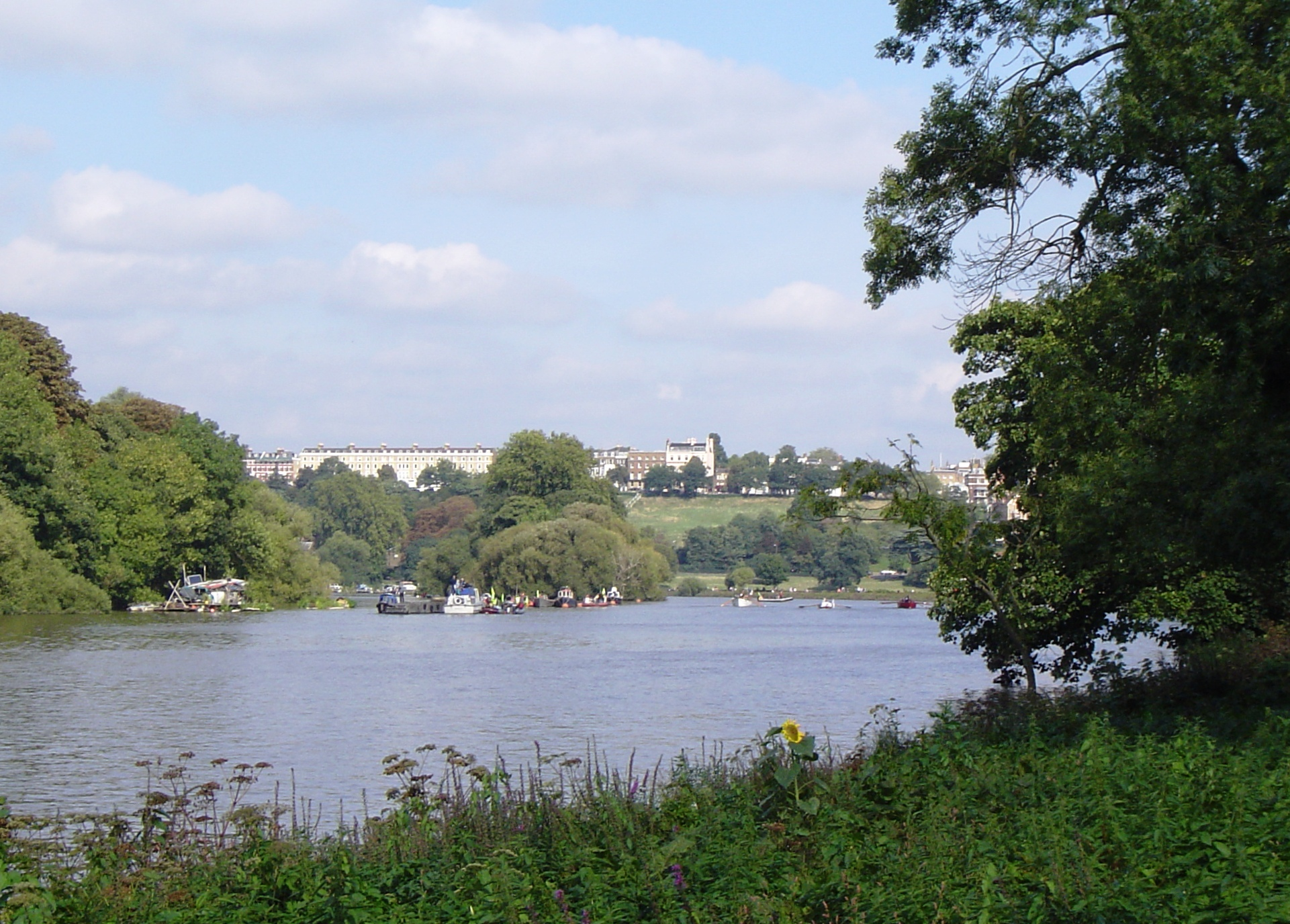 Glovers Island River Thames and Richmond Hill